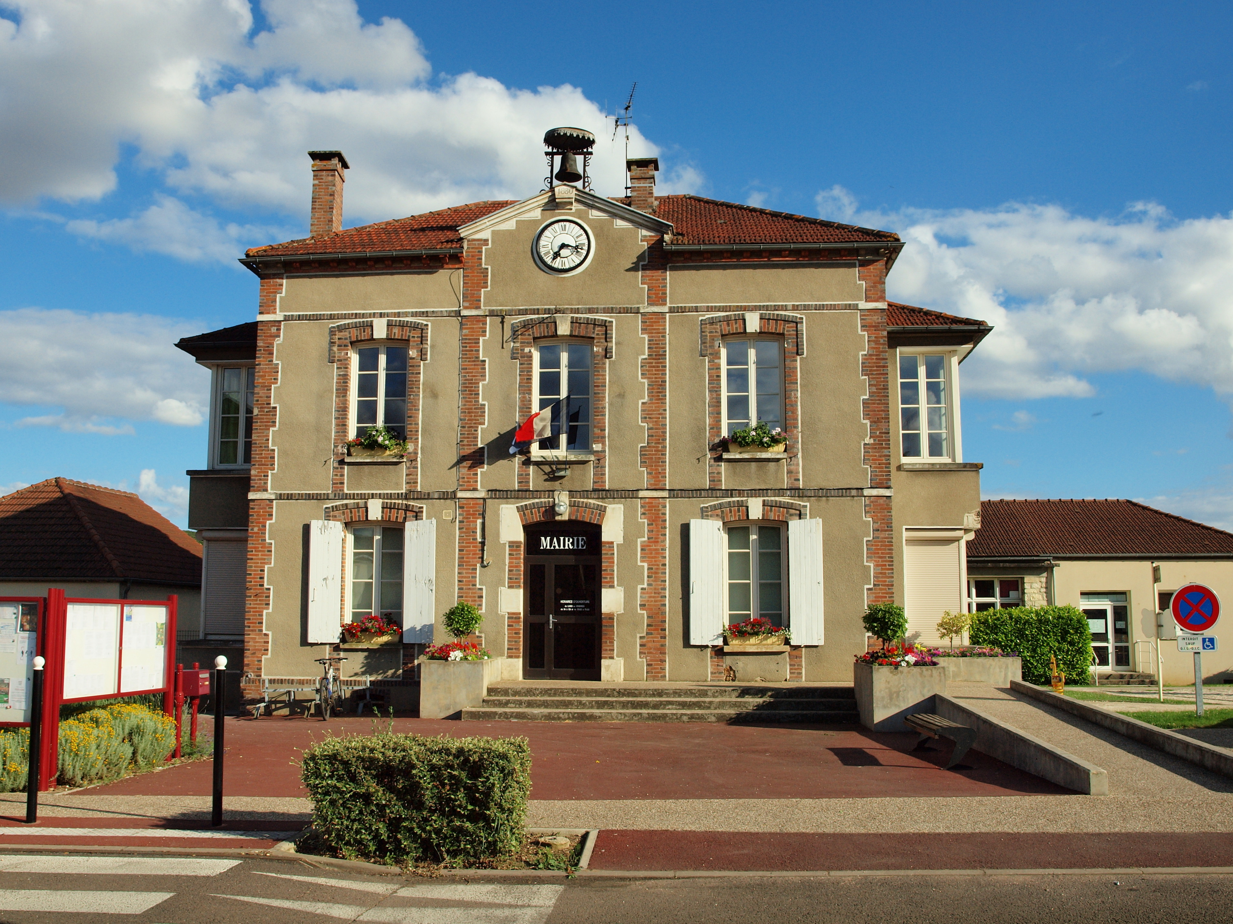 Mairie de Soucy (Yonne, France)